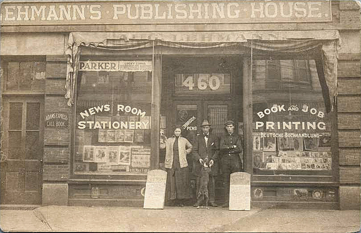 The Lehmann Publishing House of 460 Main Street, South Holyoke, Holyoke, Massachusetts. Founded in about 1894 by August Lehmann (whose name appears faded on the awning above the door), it would remain extant to about 1922, publishing a small German paper Die Biene (The Bee) from its founding until shortly after Lehmann's death in 1917. The printing firm, part of the Holyoke German immigrant colony, sat in the former location of competitor, the German-American Publishing Company